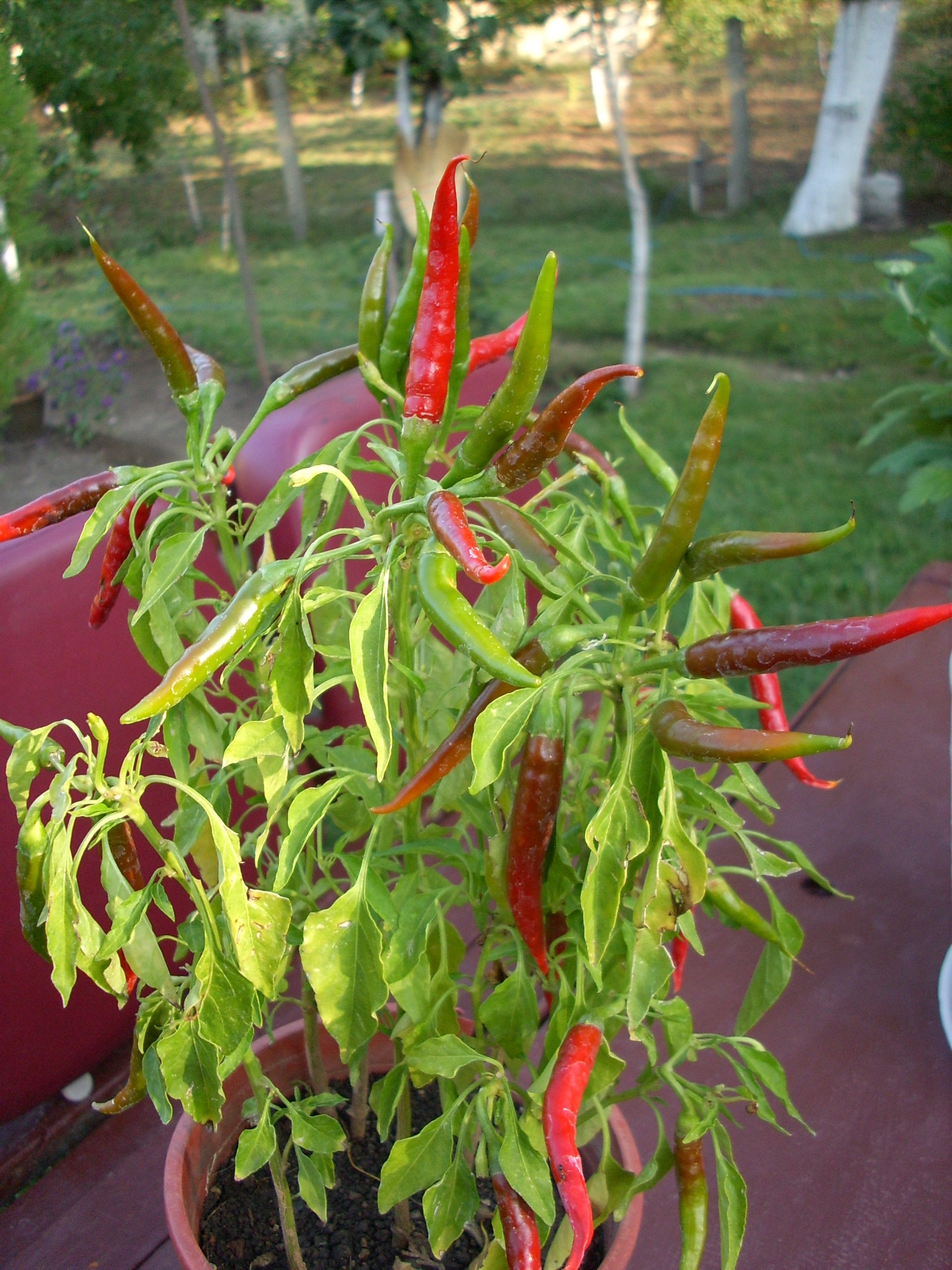 Capsicum baccatum